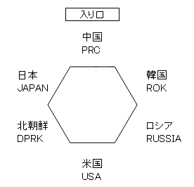 A figure of a table of the six party talks (Japanese).